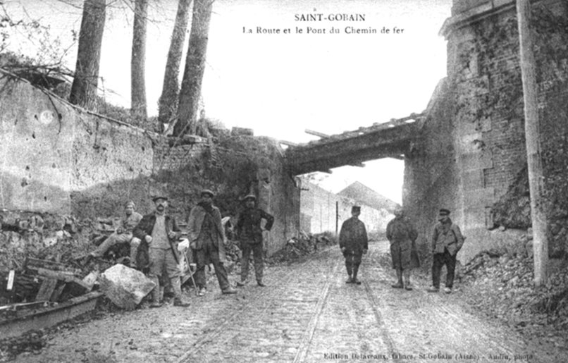 Old tramway line in france (Saint Gobain, Aisne)